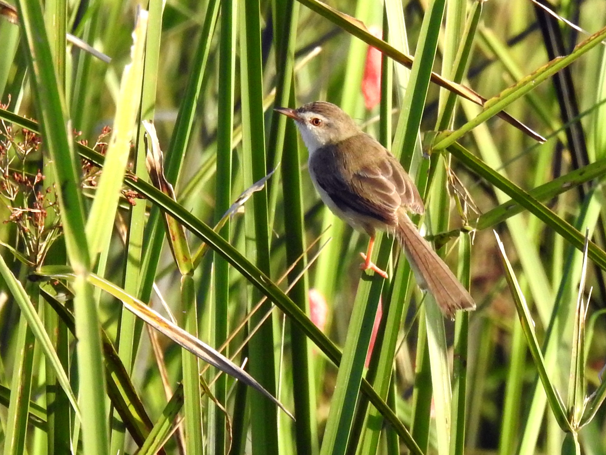 Plain prinia, Prinia inornata blythi, perching at a leaf stalk of Actinoscirpus grossus shrub. From Lumajang, East Java, Indonesia.